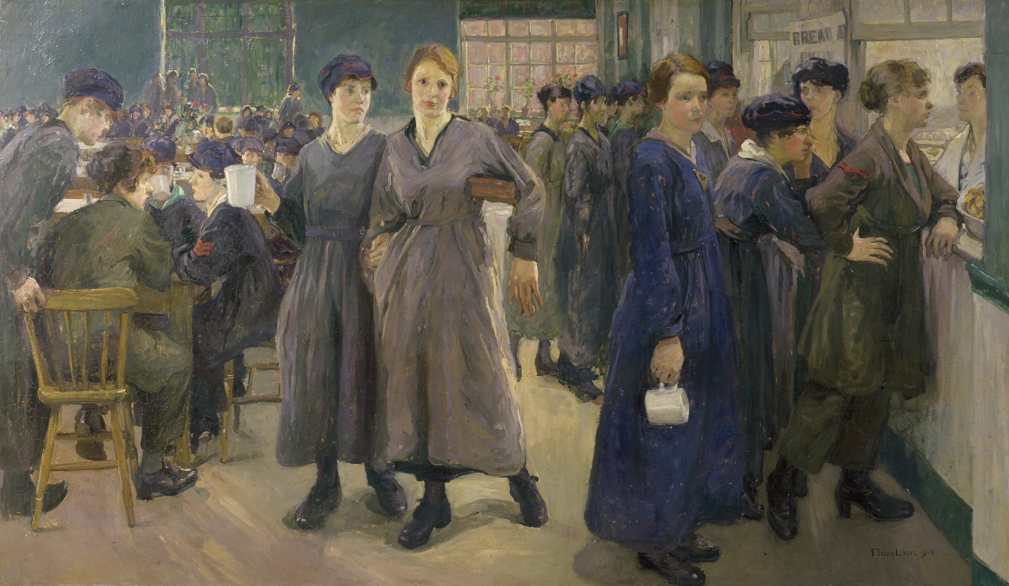 Flora Lion was a portrait painter who was given access to paint factory scenes in Leeds and Bradford during World War One. The interior of the canteen is filled with women workers who sit, chat and queue for food. Many are obviously tired. The couple in the centre, arms entwined, dominate the scene and embody the confidence of women newly liberated by employment. image: The interior of a canteen filled with female workers. There is a counter to the right of the composition, and tables occupied with women in overalls and cloth caps to the left. There is a queue at the counter, with several women holding large white cups. In the centre two women walk arm-in-arm towards the viewer, and next to them another stands looking out in the same direction.